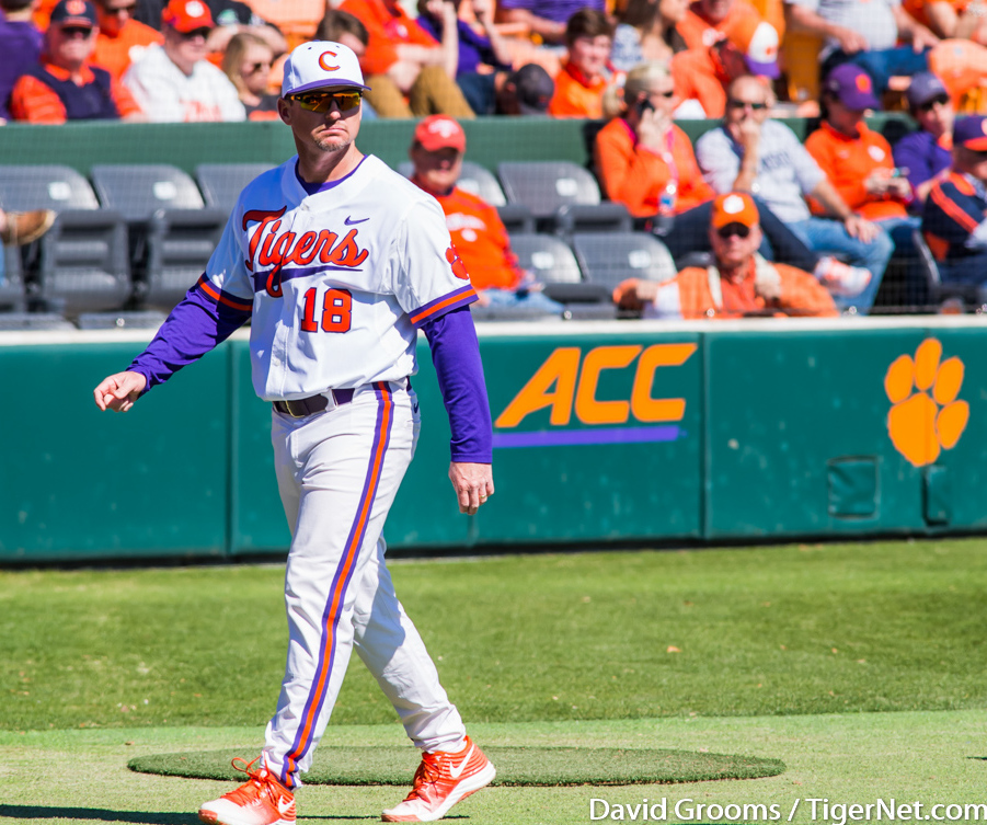 NCAA BASEBALL 2016: James Madison at Clemson FEB 28